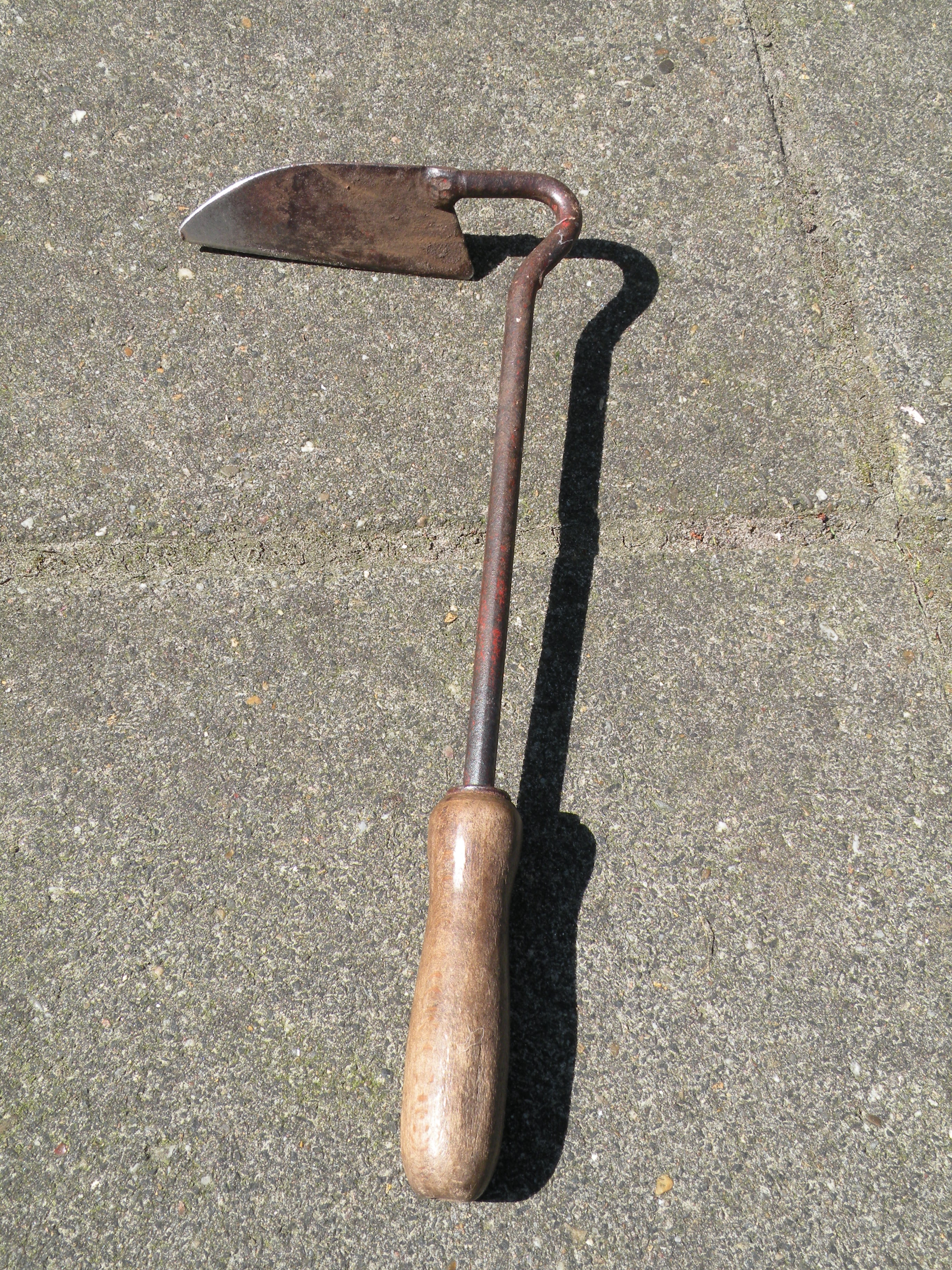 garden Hoe - hand tool